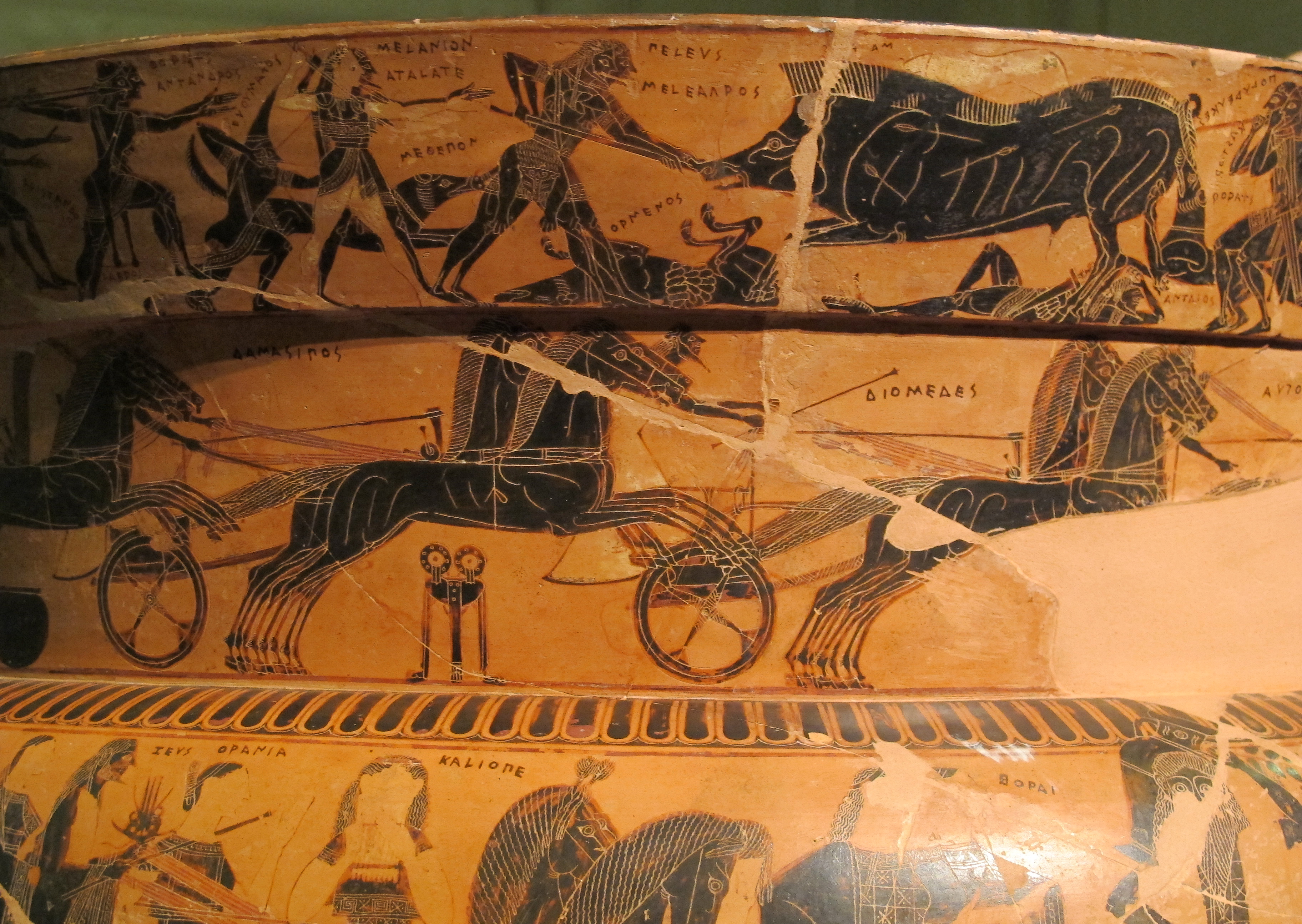 François vase